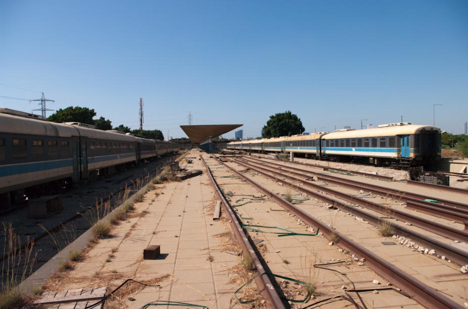 Tel Aviv South station, which briefly served on the Tel Aviv-Jerusalem line, as the terminus.